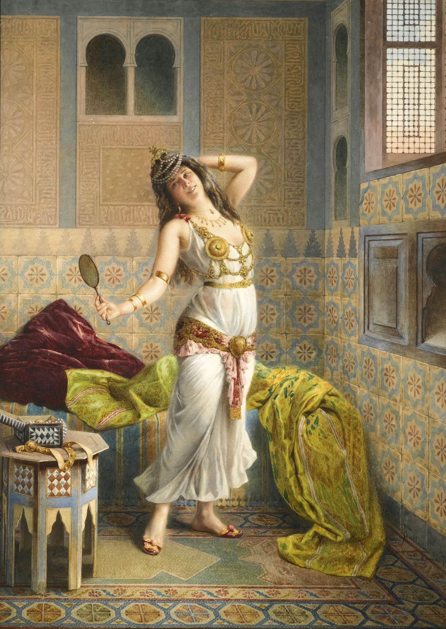 Preparing for the dance